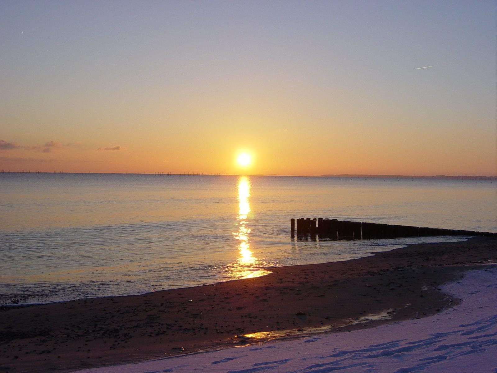 Råbylille Strand, Møn, Denmark - Winter sunset Author: Ipigott